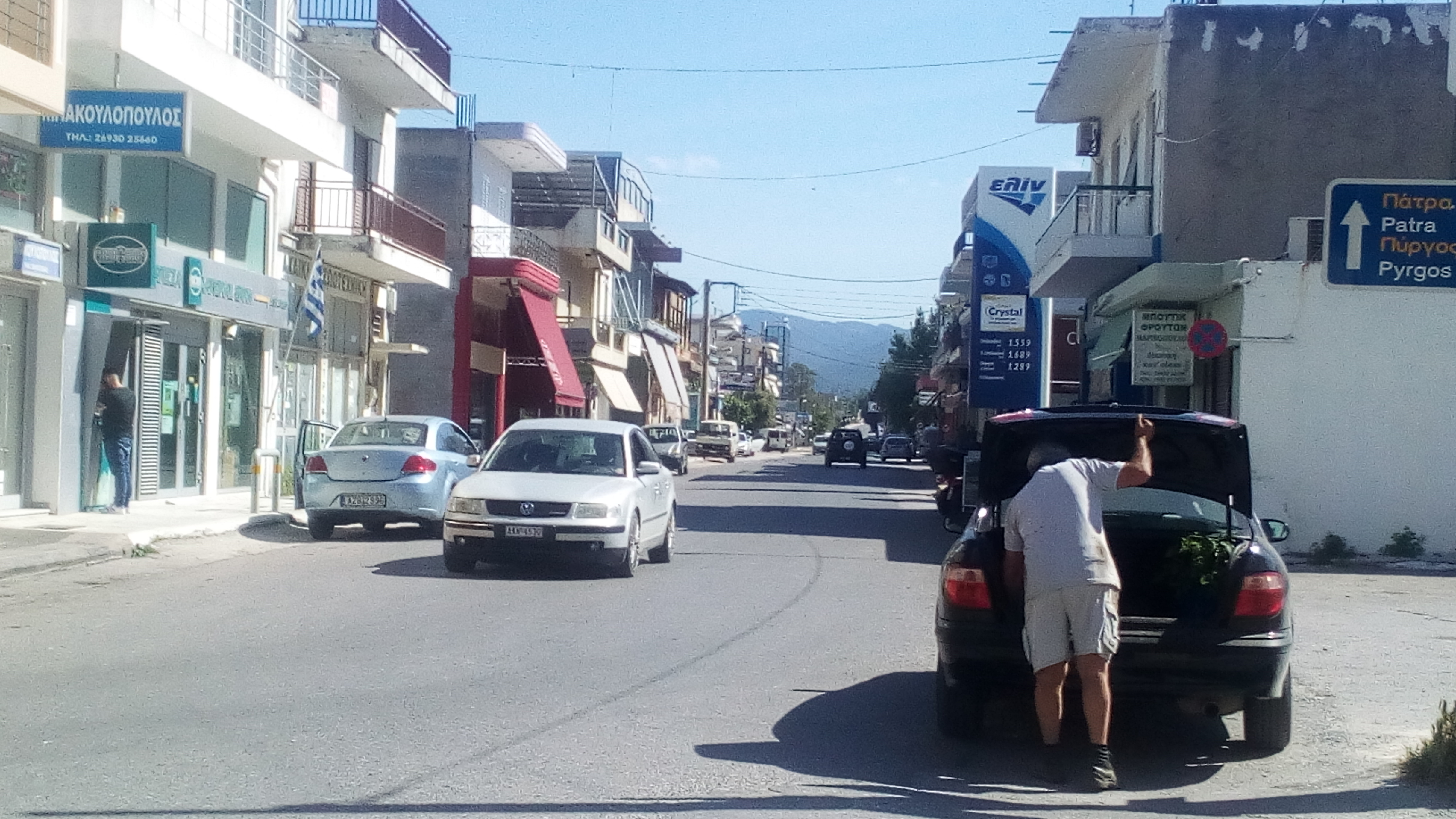 This is a photograph i took of the main road of Kato Achaia.